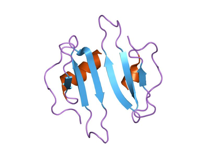 Cartoon representation of the molecular structure of protein registered with 1o7z code.